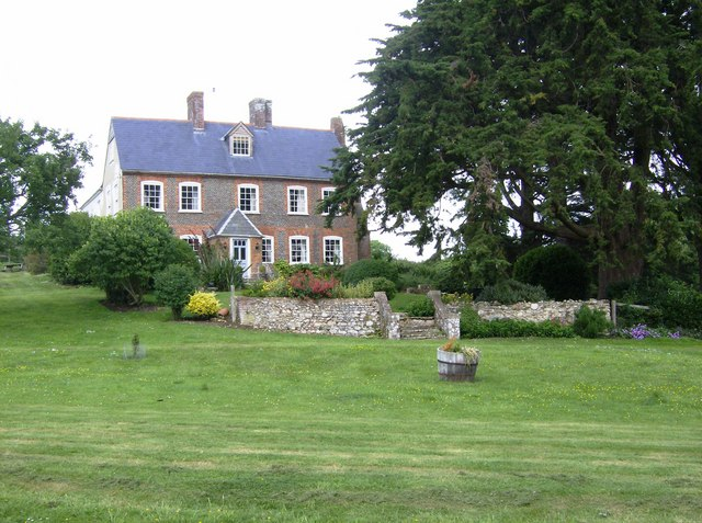 Great East Standen Manor Part of a substantial complex of a well-kept farm and stables, this is the main building on the site. A byway runs south from here.